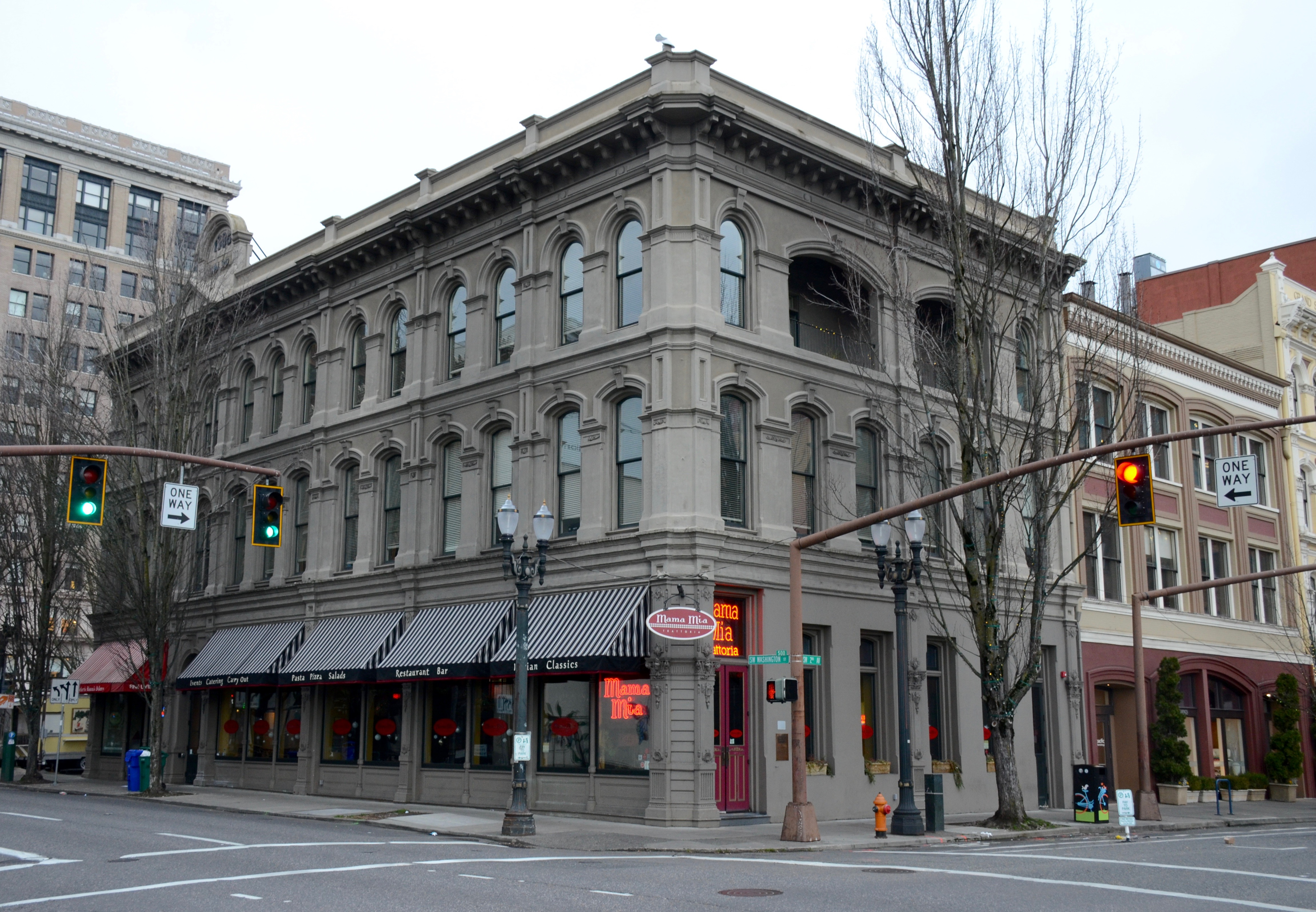 The historic Waldo Block (built in 1886) in downtown Portland, Oregon, viewed from across the intersection of SW 2nd Avenue and Harvey Milk Street (formerly Stark Street). The Victorian Italianate-style building is listed on the U.S. National Register of Historic Places. The ground floor is currently occupied by a restaurant named Mama Mia Trattoria.